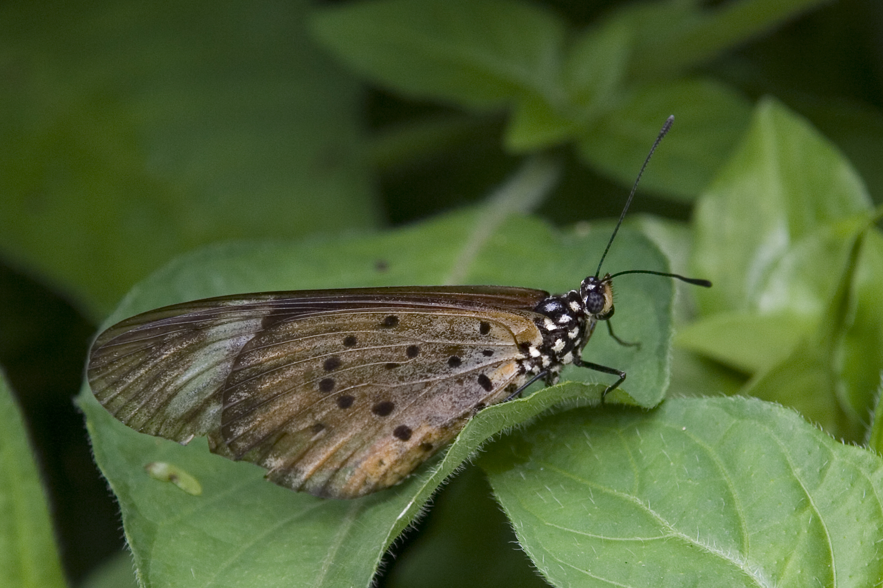 (Acraea encedon, Linnaeus, 1758), Common Acraea